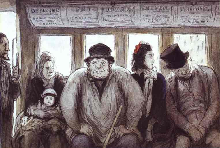 Honore Daumier, The Omnibus, 1864, crayon and watercolor Walters Art Museum Baltimore documentary photo of 19th century drawing